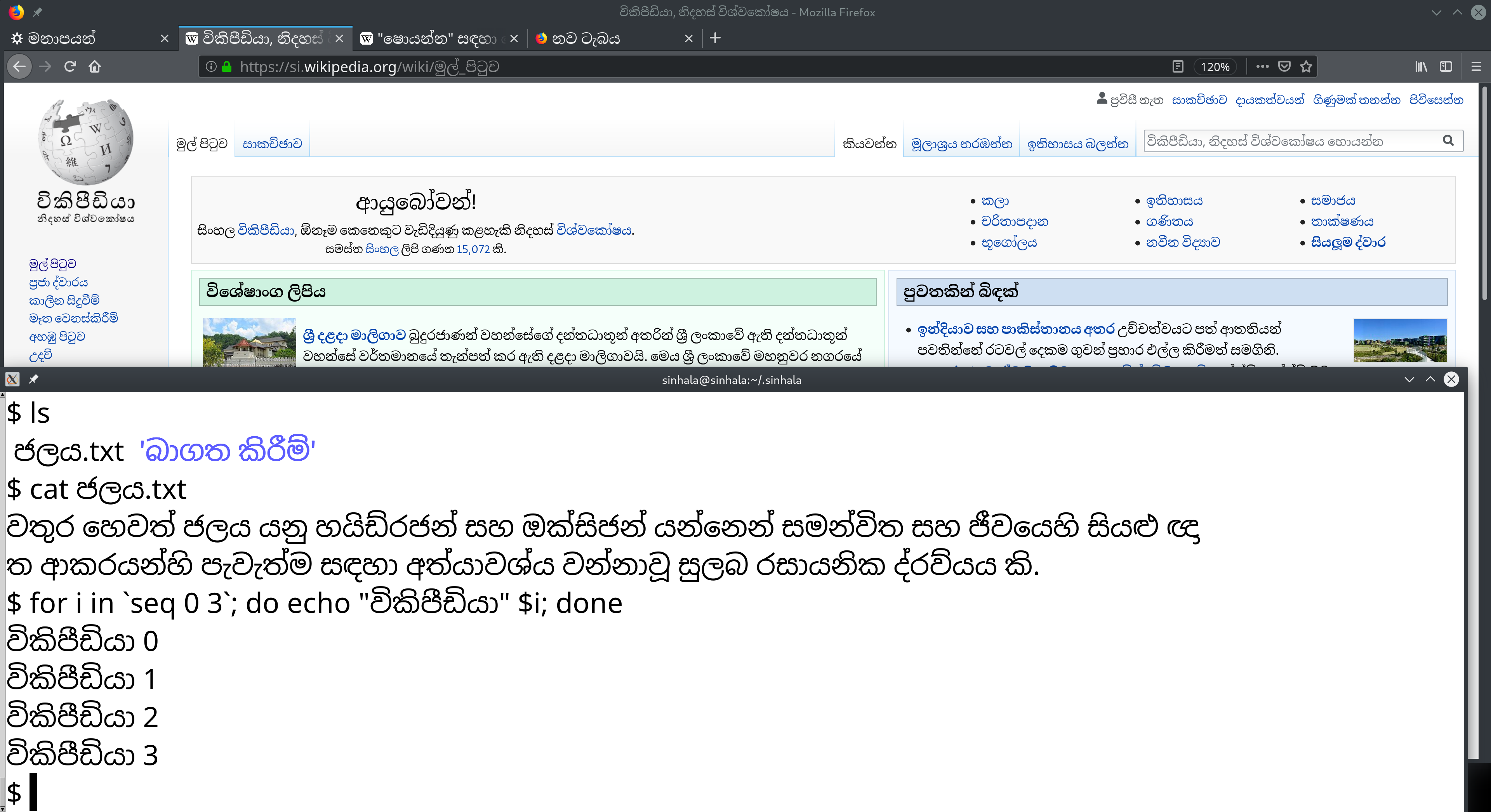 Screenshot of Sinhala support in Linux